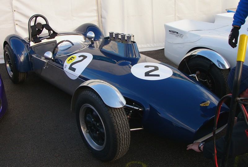 Image by Peter Fenelon, taken at Aintree Festival of Motorsport 2004